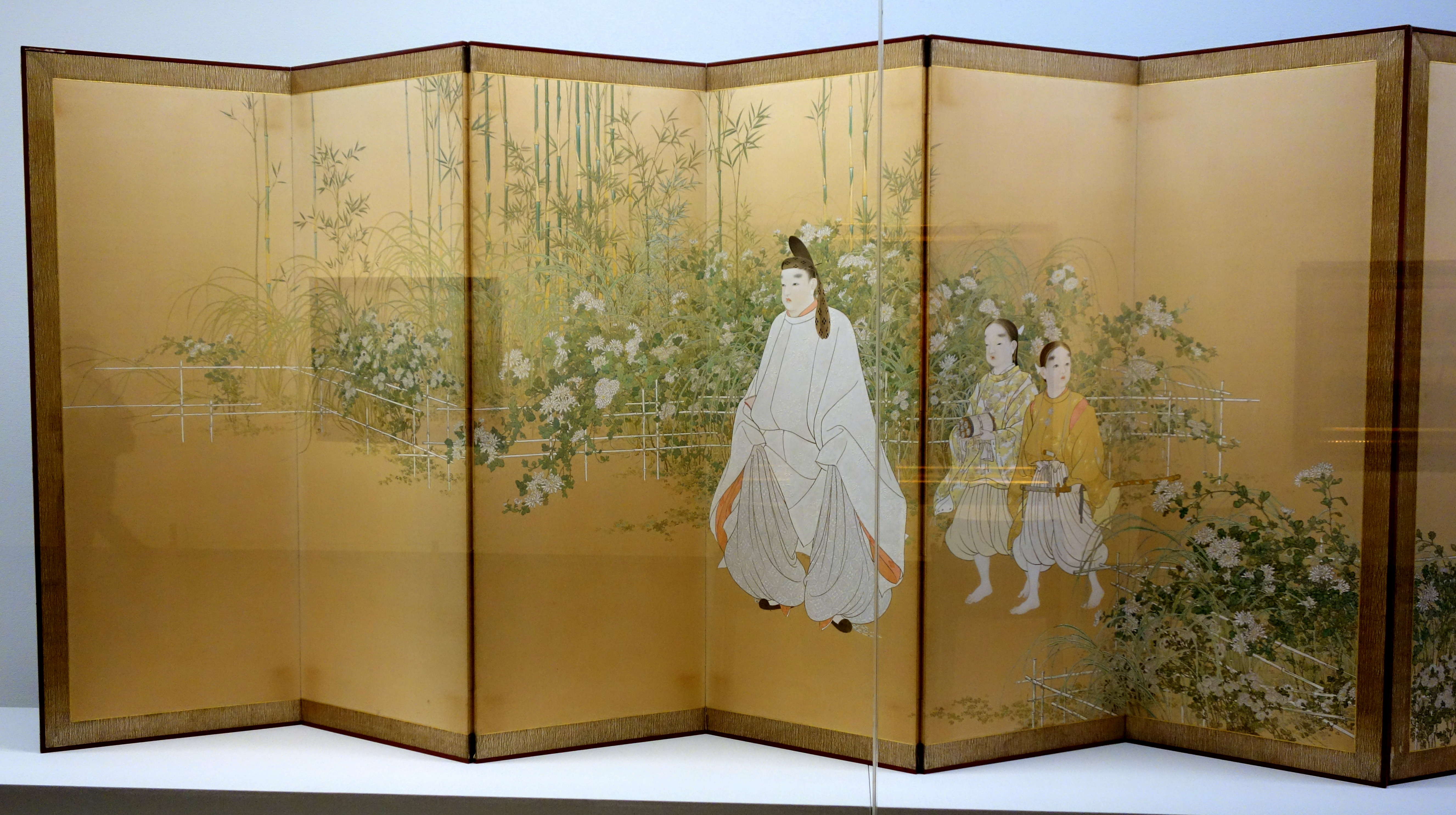 Exhibit in the National Museum of Modern Art, Tokyo (東京国立近代美術館). This artwork is in the public domain because the artist died more than 70 years ago.